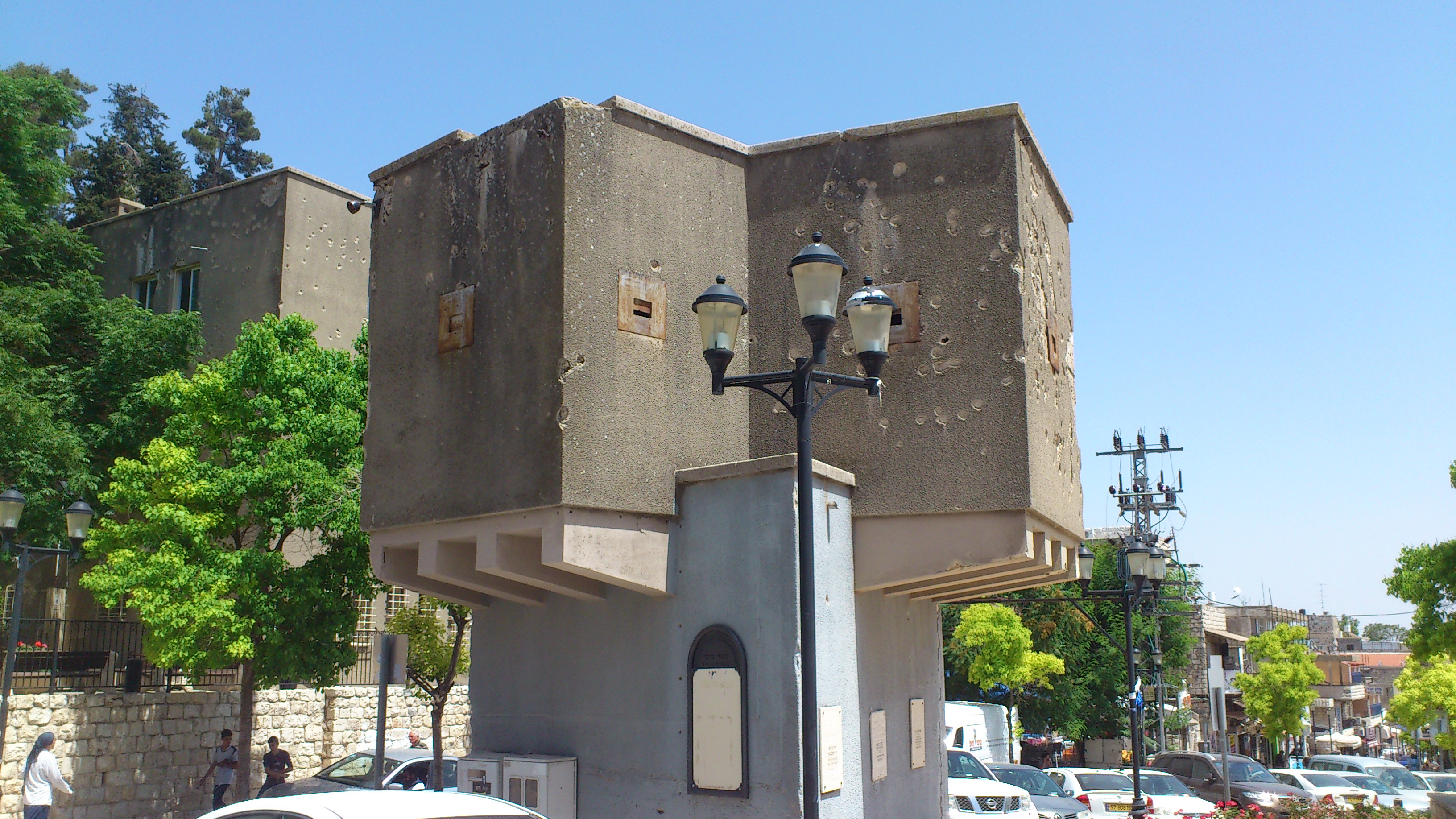 Old city, Safed